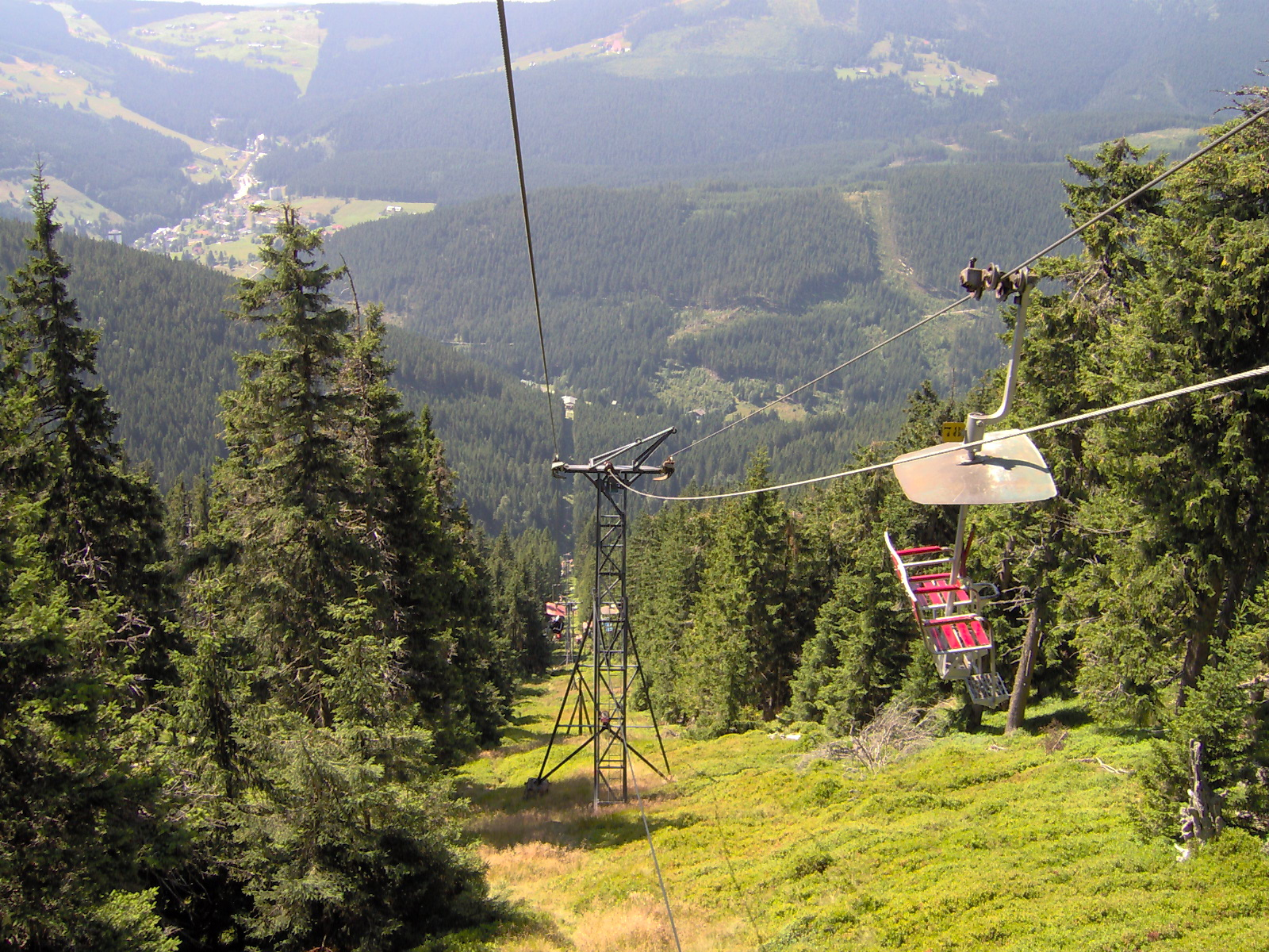 Chairlift Pec pod Sněžkou – Růžová hora – Sněžka, lower section